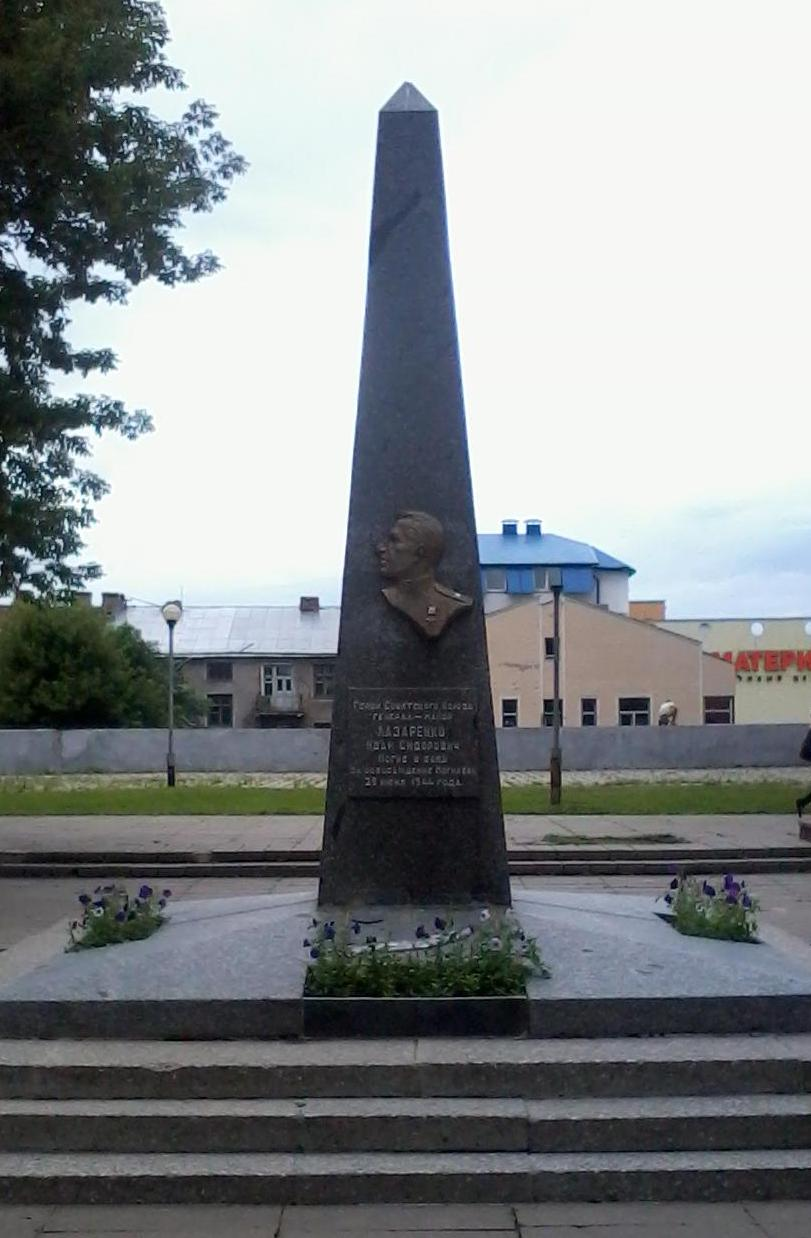 Monument to General Lazorenko (Mogilev)